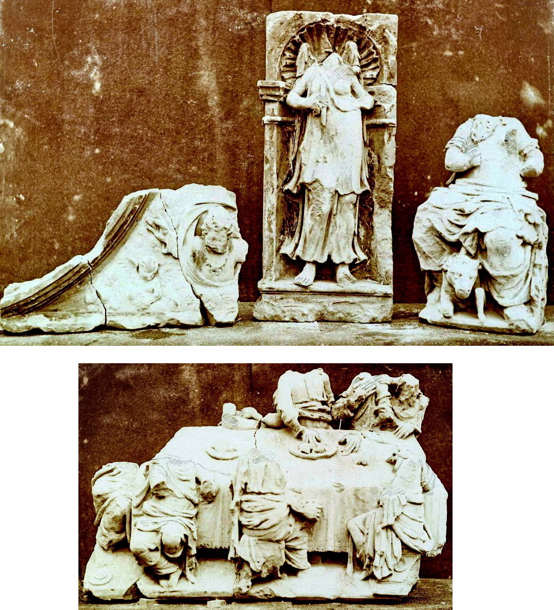 Fragments of a tabernacle tower, originally in the Croziers Church (Kruisherenkerk) in Maastricht, the Netherlands, now part of the LGOG collection in Bonnefantenmuseum (external depot). The tabernacle was ordered in 1561 by the Croziers (or Crutched Friars) from the Liège sculptor Guillaume de Jockeu. The 10 meters tall monument was destroyed at some point, perhaps after the dissolution of the monastery in 1796 (during the French occupation). Some fragments were buried underneath the church floor where they were discovered in 1914. The photographs date from that period.